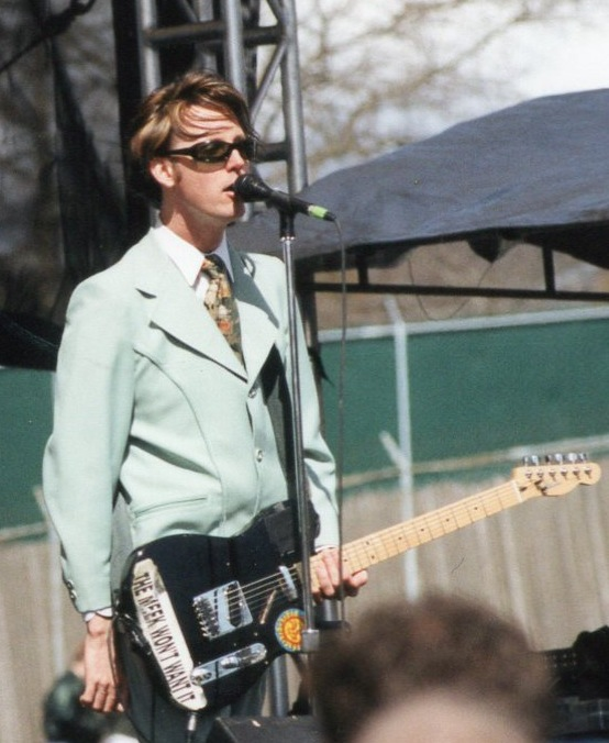 english